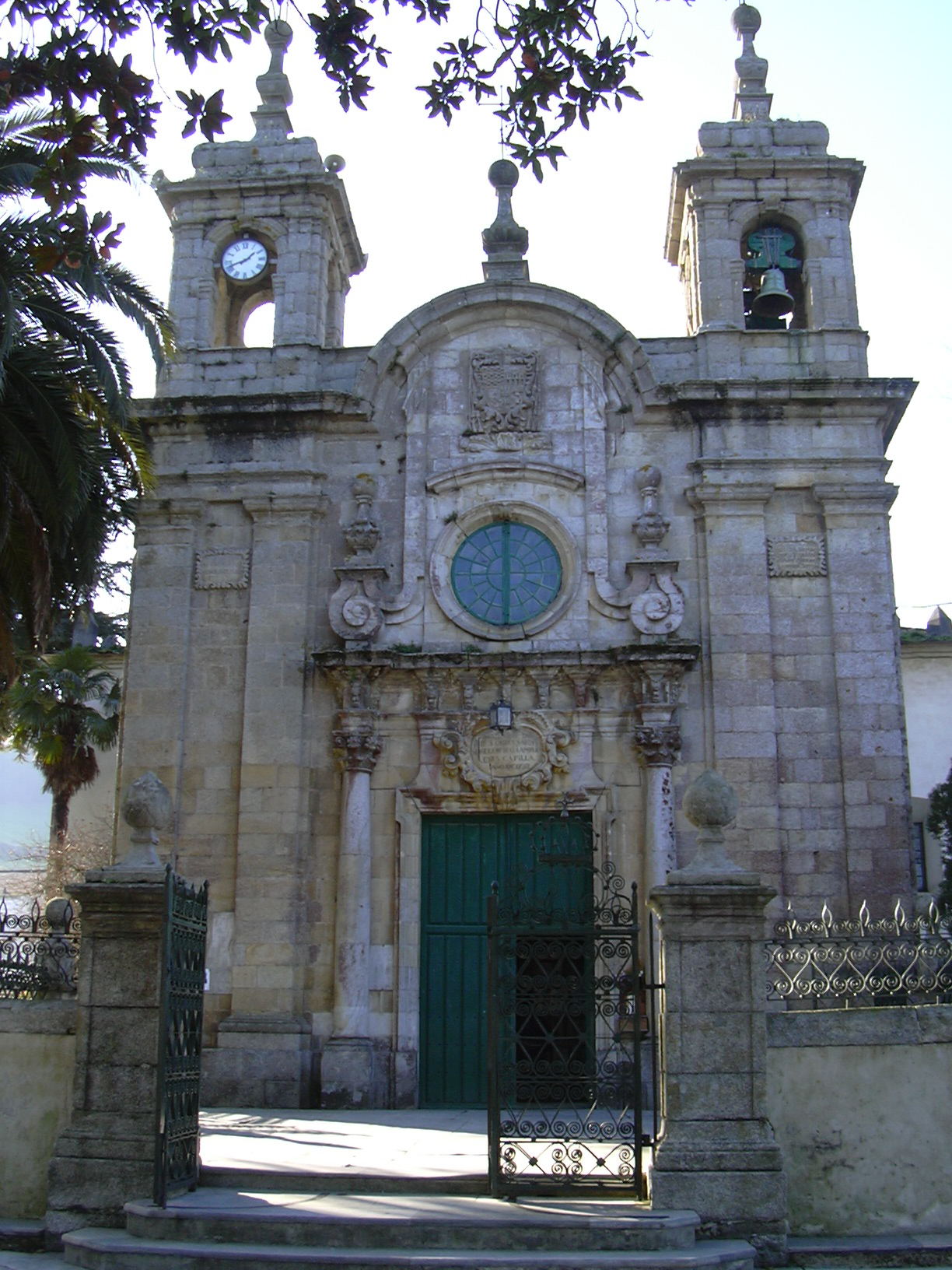 The "Santuario dos Remedios" in Mondoñedo